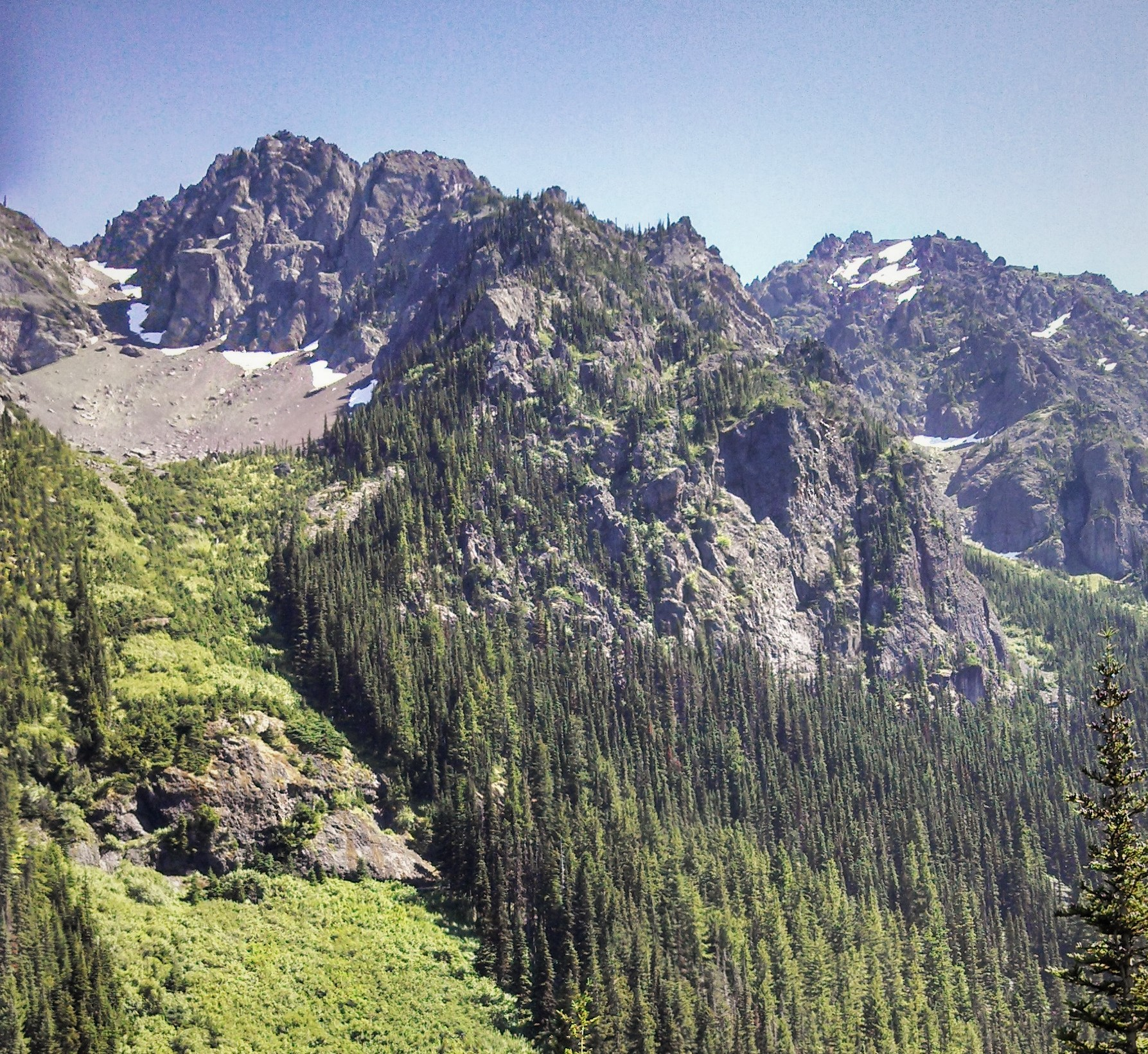 Mount Worthington from the north, Olympic National Forest.